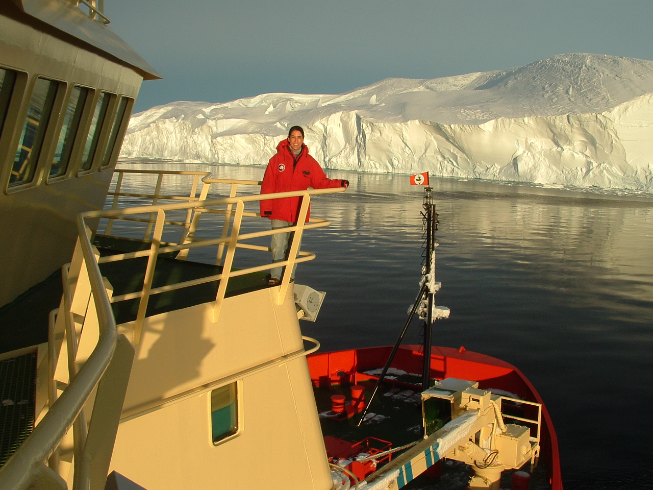 Amy Leventer on bridge wing of RVIB NB Palmer during cruise NBP0702